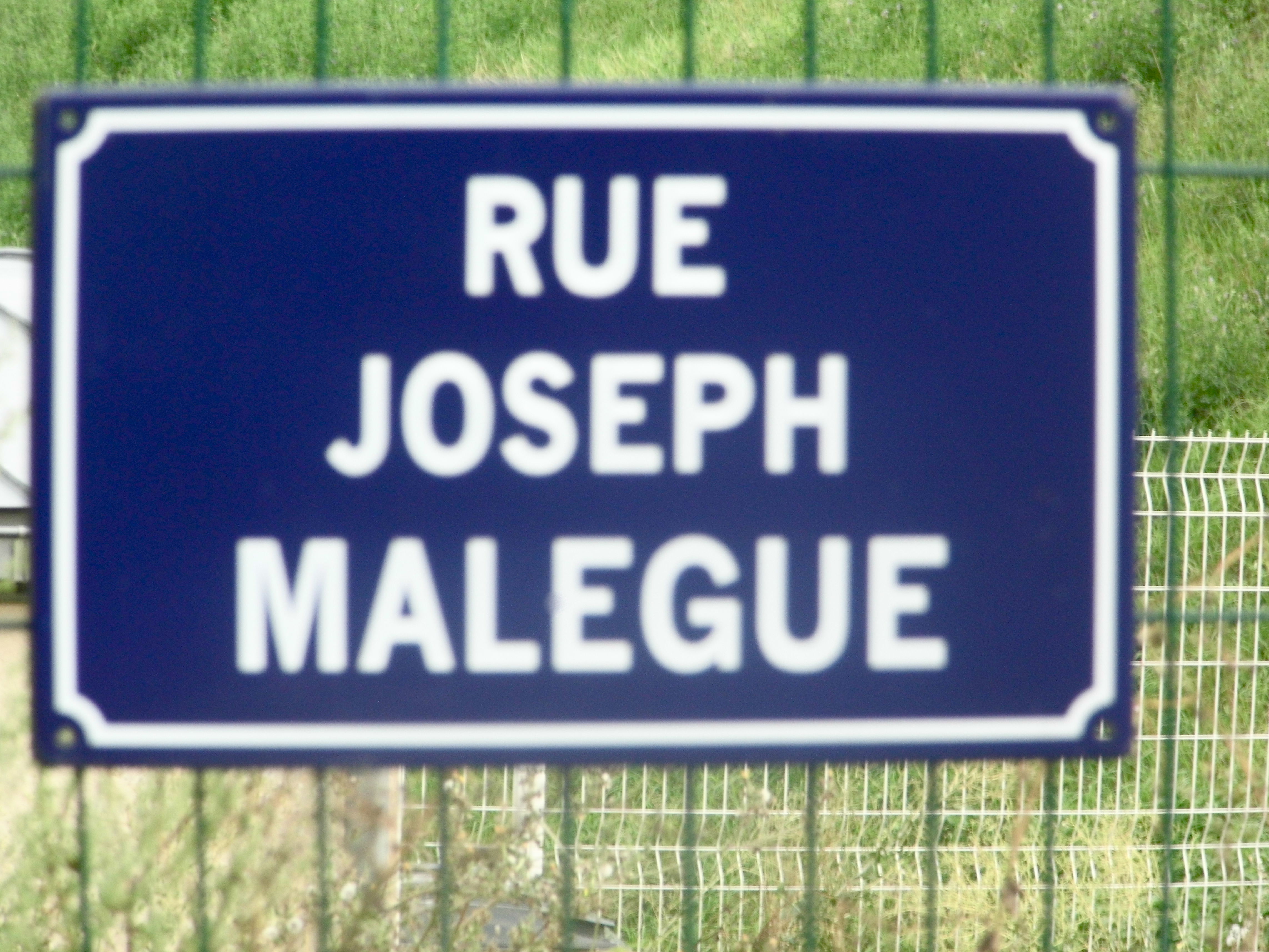 Joseph Malègue street in Clermont-Ferrand